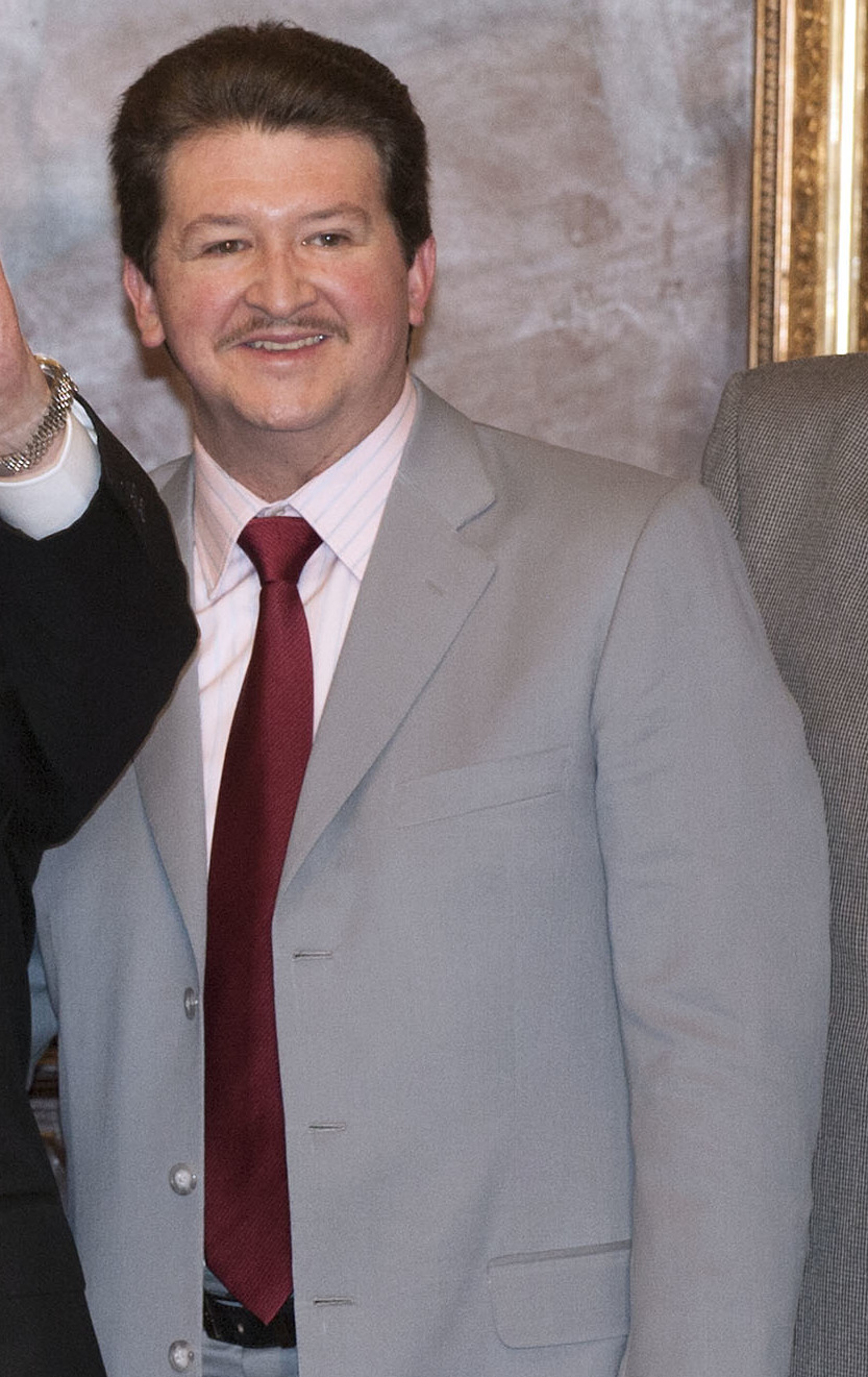 Viernes 27 de Febrero 2015. Homenaje al actor Ignacio L—pez Tarso, el cual fue encabezado por el Jefe de Gobierno, Doctor Miguel çngel Mancera, y el Secretario de Cultura CDMX, Eduardo V‡zquez Mart’n, en el Sal—n de Cabildos de la Jefatura de Gobierno. Foto: Antonio Nava / Secretar’a de Cultura